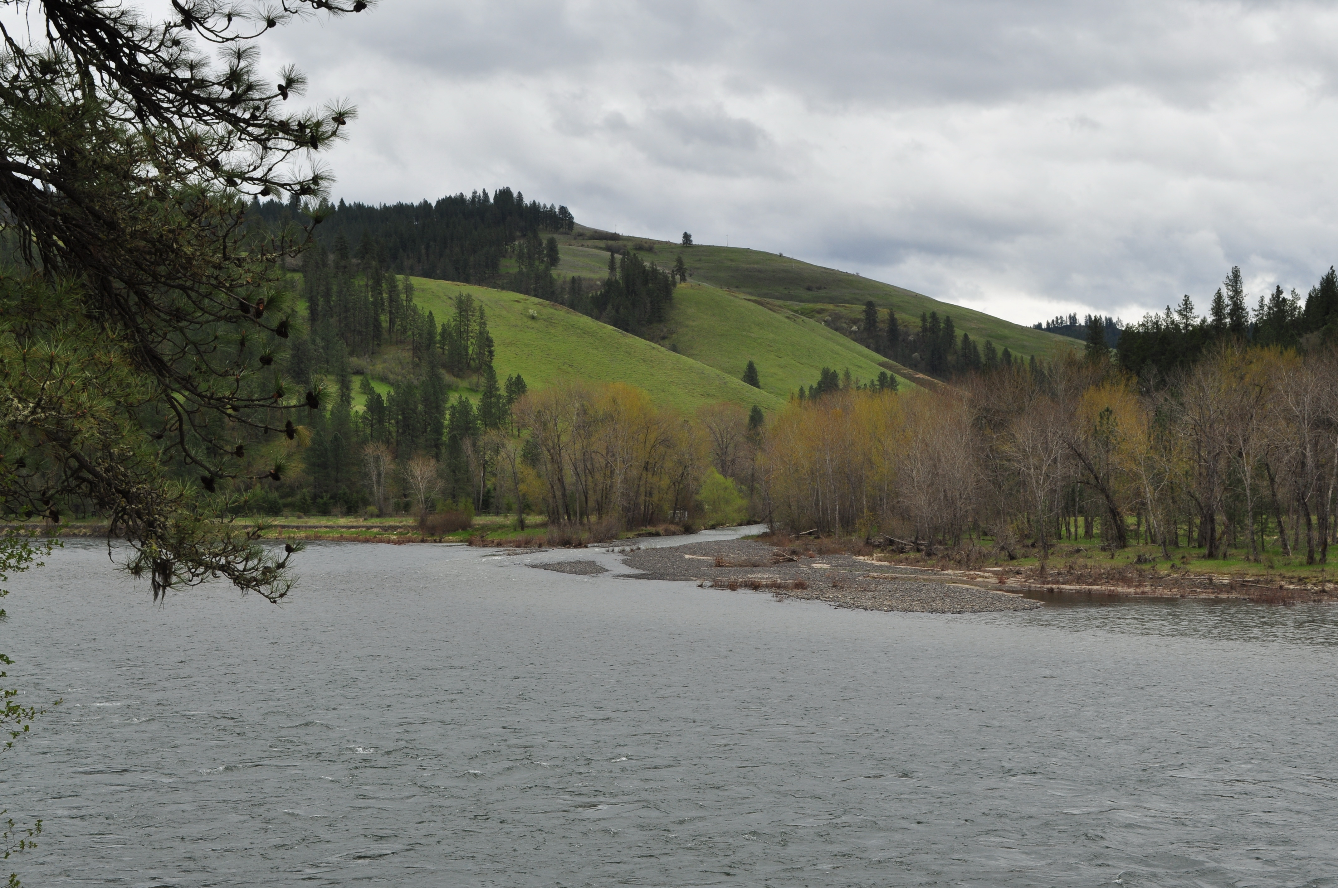 Chief Looking Glass Village site, along the Nez Perce National Historic Trail, near Kooskia, Idaho. US Forest Service photo, by Roger Peterson